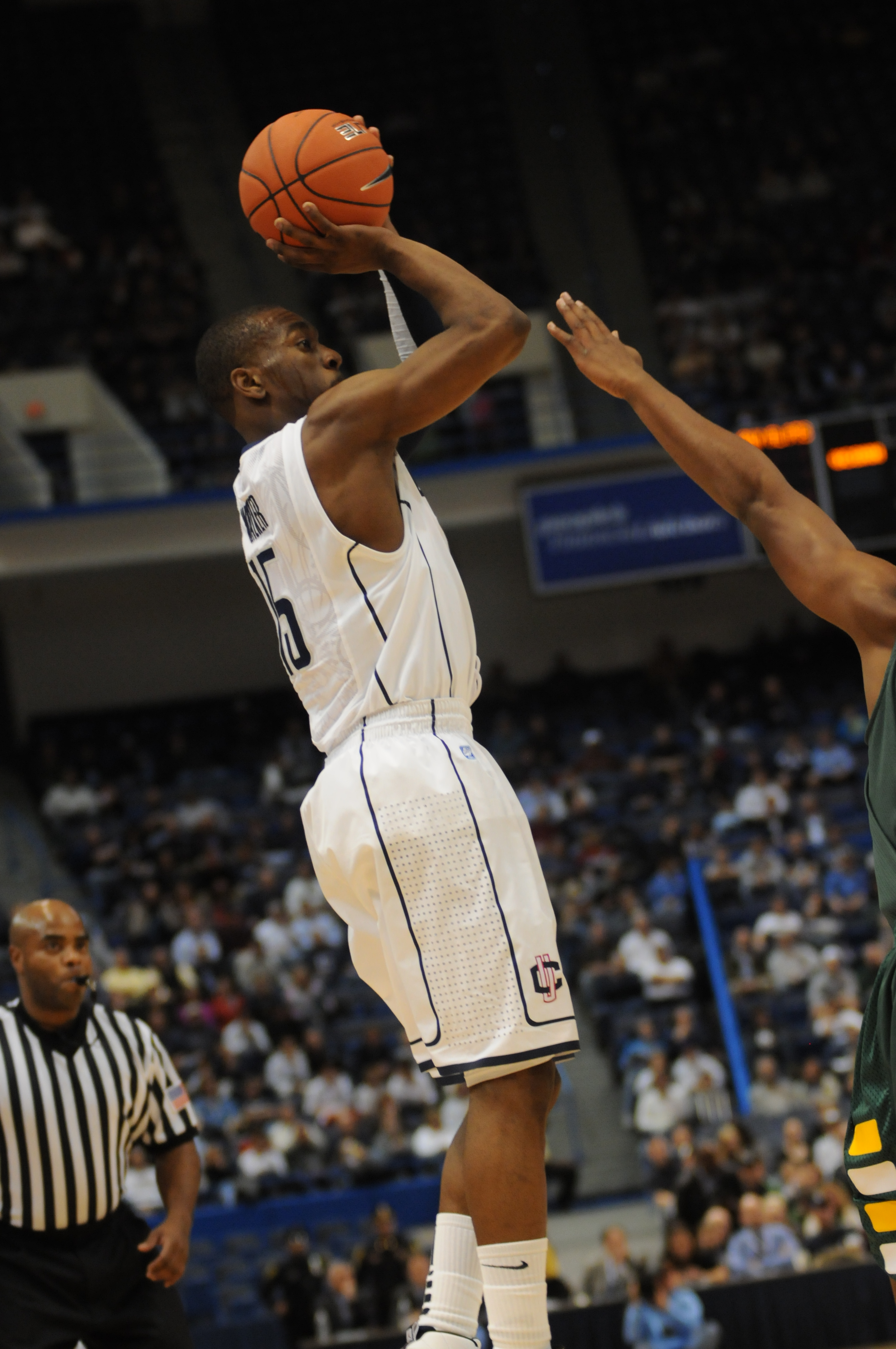 Kemba Walker takes shot against UVM on 11-18-2010.